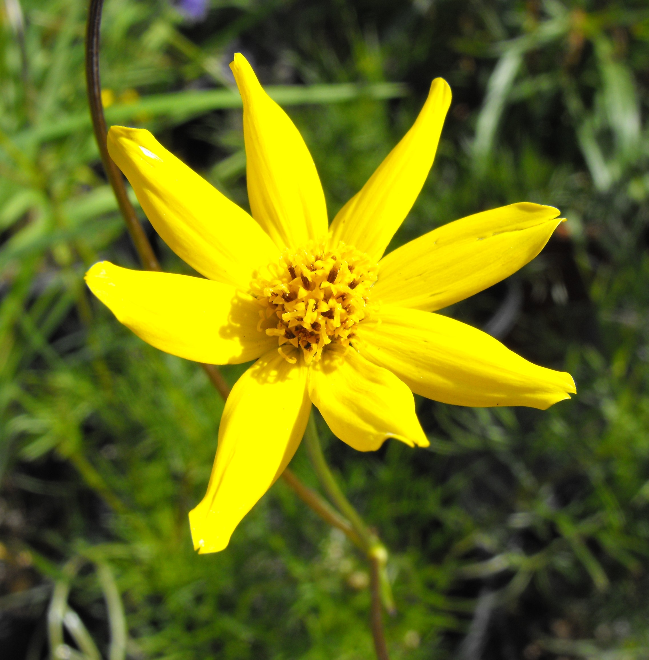 Bidens nudata at the San Diego Home & Garden Show, California, USA. Identified by exhibitor's sign.